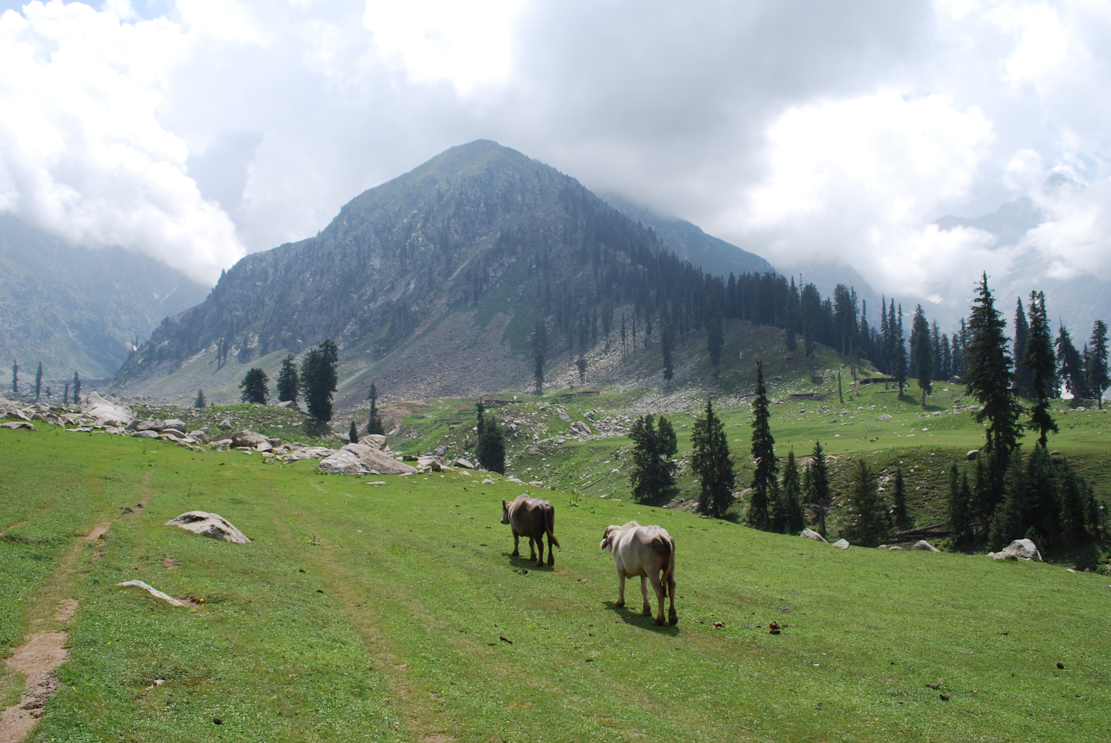 Natural Landscape